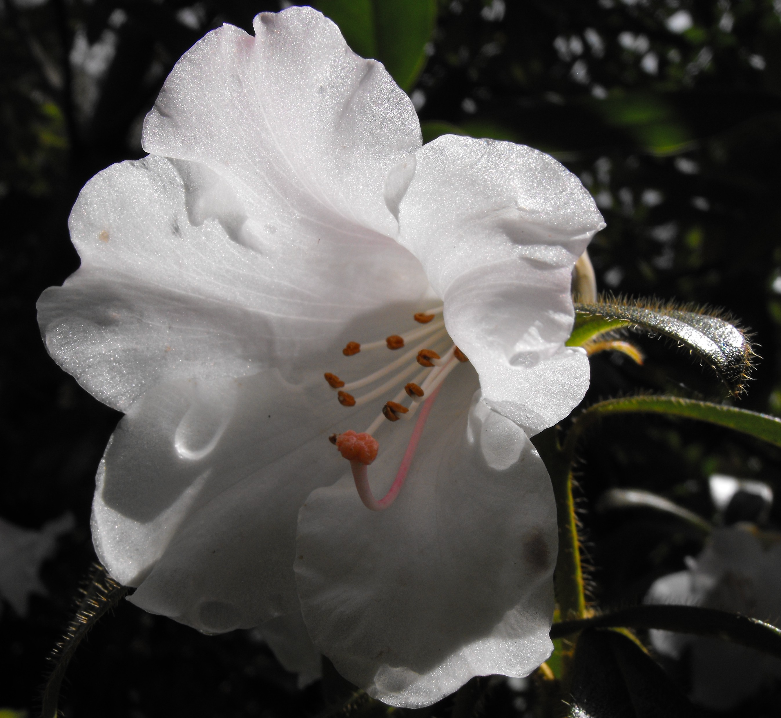 Rhododendron ciliatum at the UC Berkeley Botanical Garden, California, USA. Identified by sign.